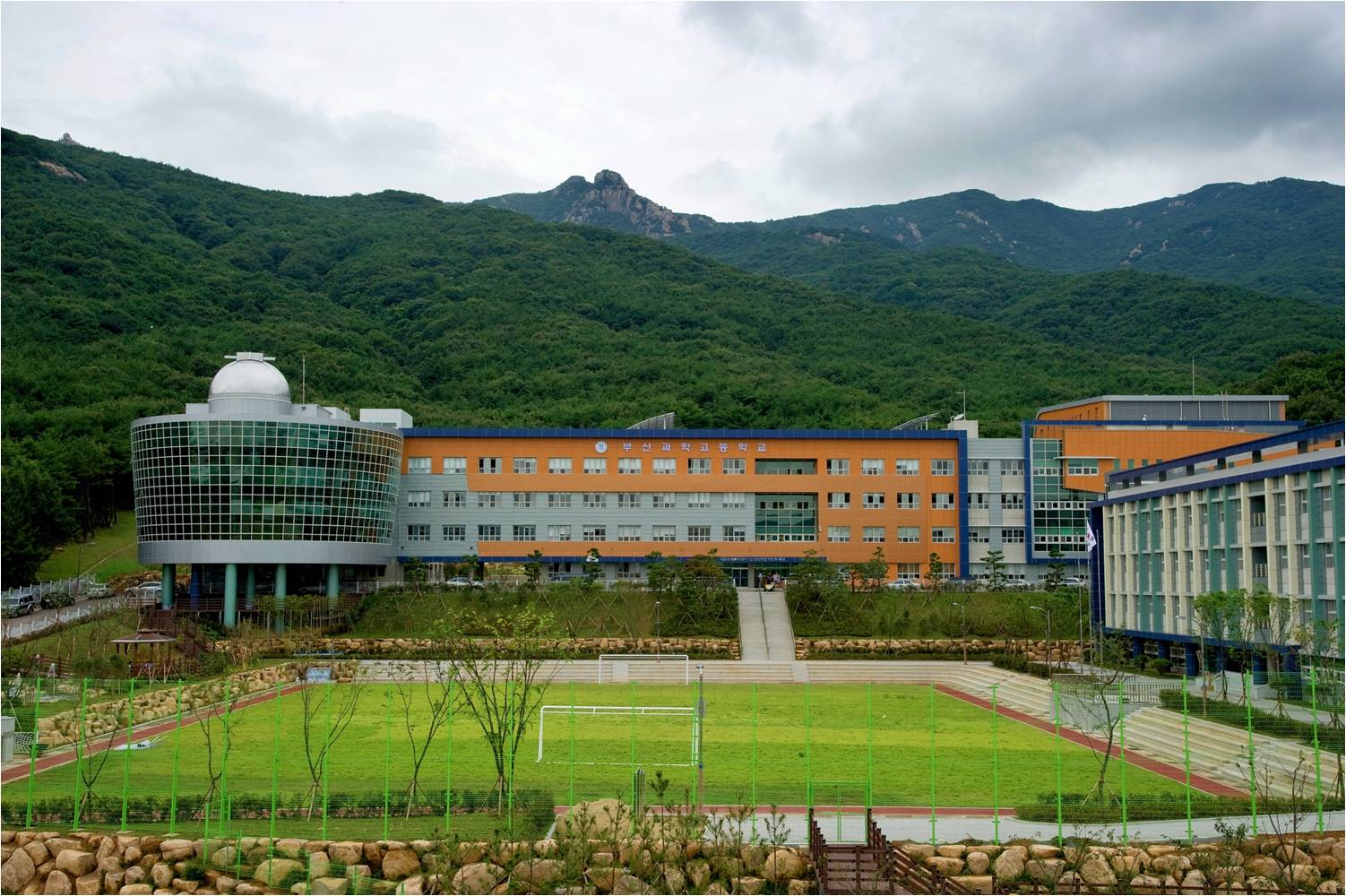 Busan Science High School has been relocated to the new school in Guseo-dong Geumjeong-gu